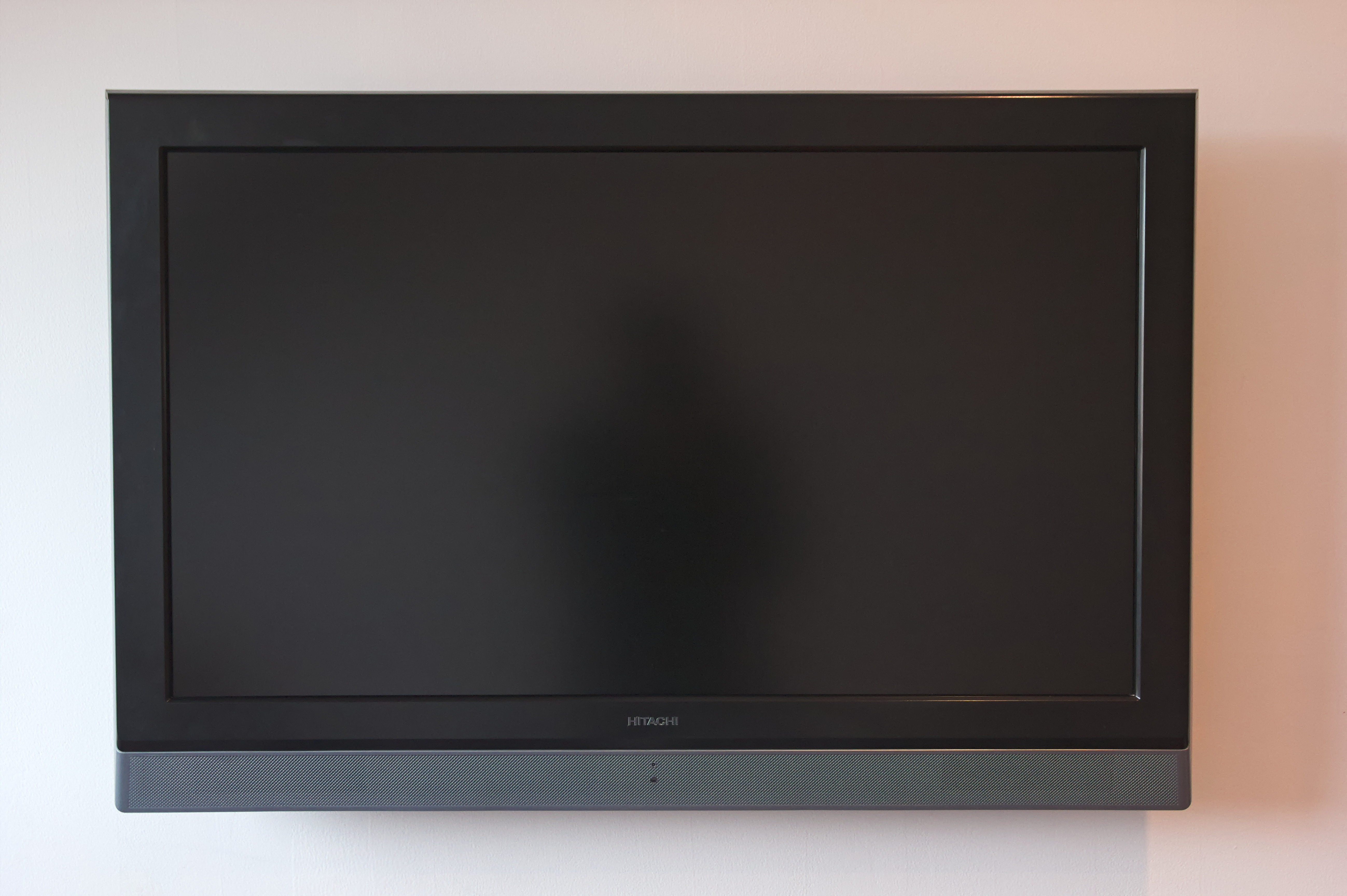 Hitachi TV model L37V01EA.